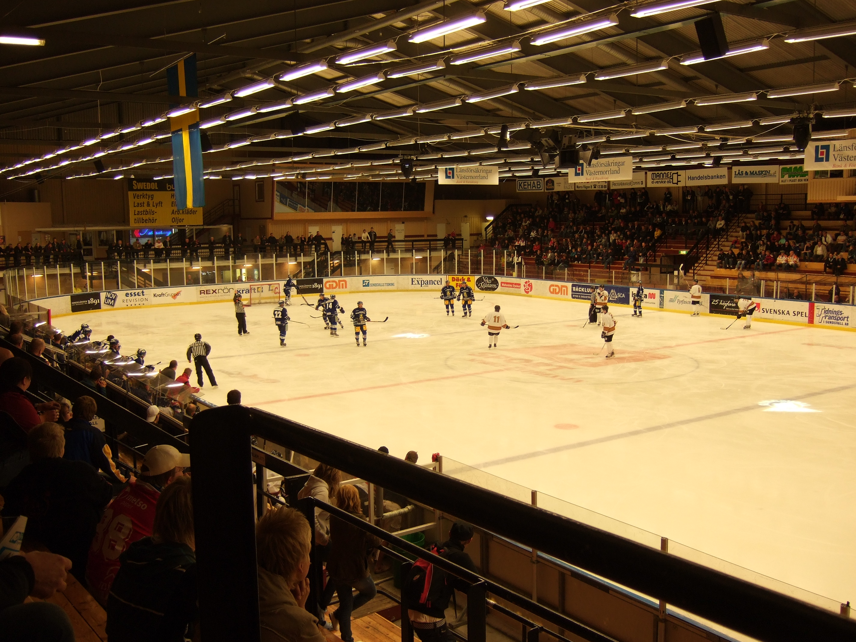 Gärdehallen ice hockey arena at Gärdehov sports/fair centre, Sundsvall, Sweden